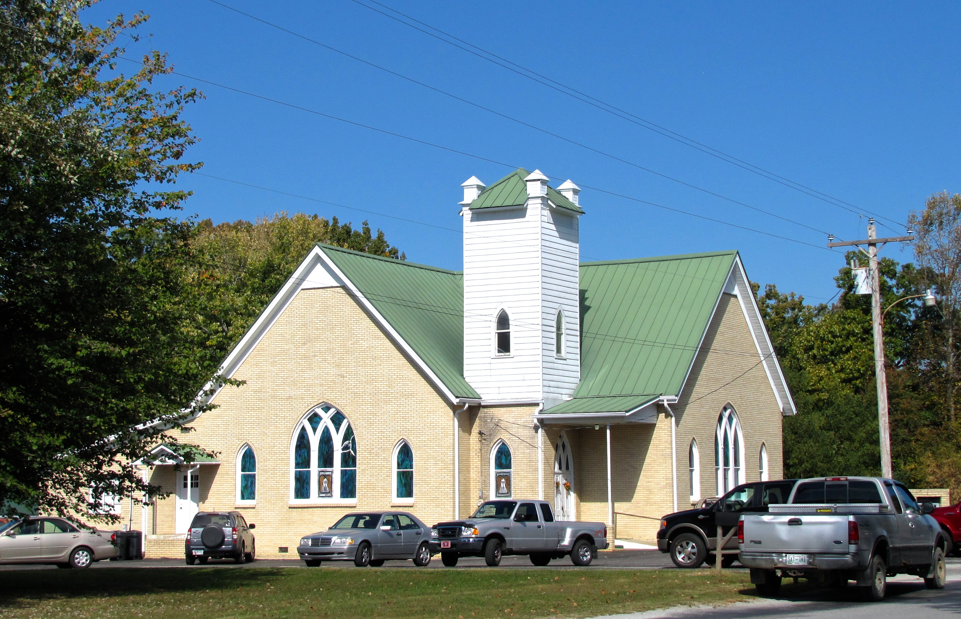 Collinwood United Methodist Church in Collinwood, Tennessee, United States.